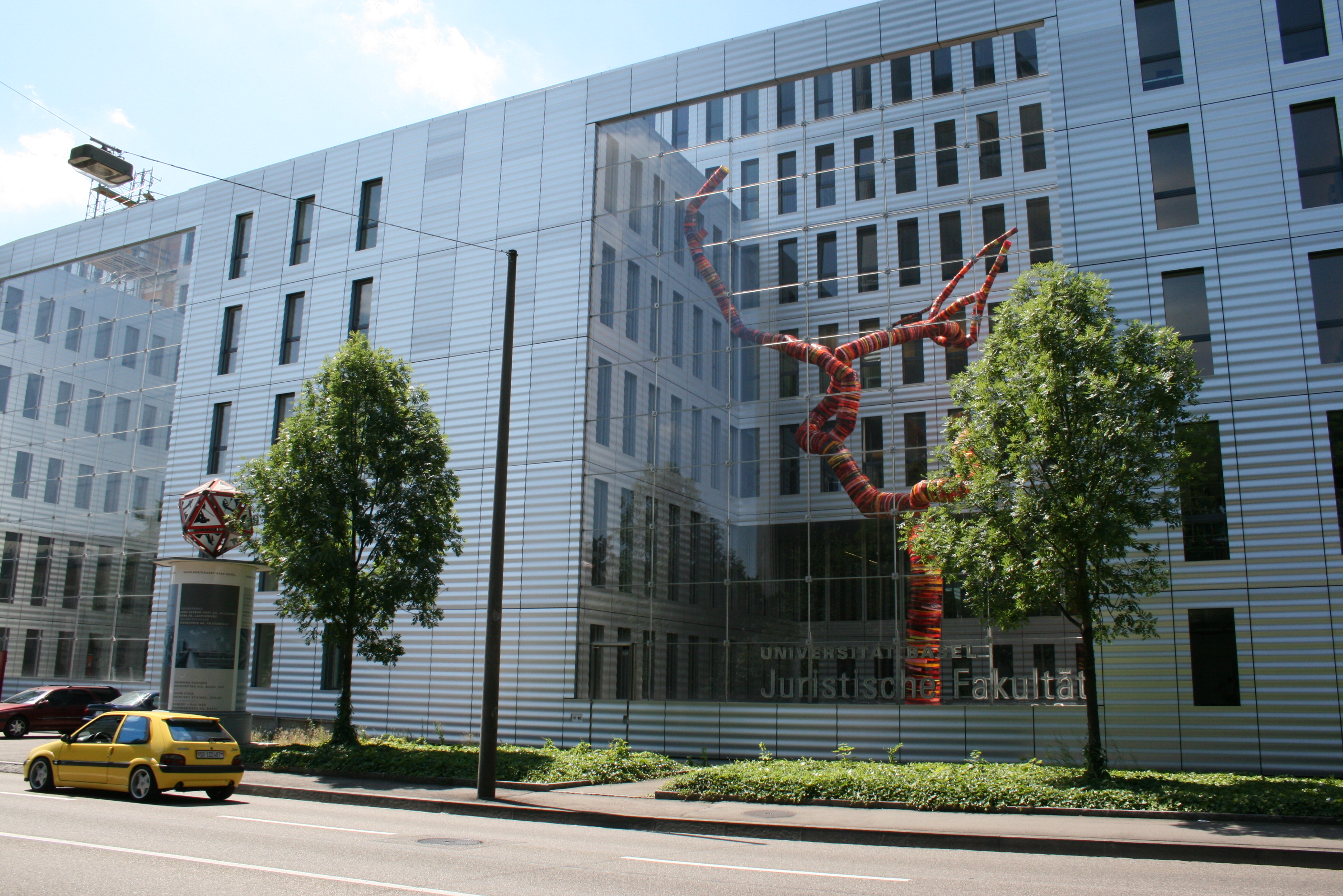 Front side of the Juridical Faculty of the University of Basel